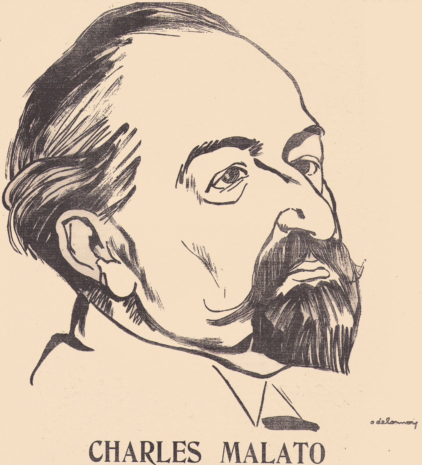 Caricature of Malato